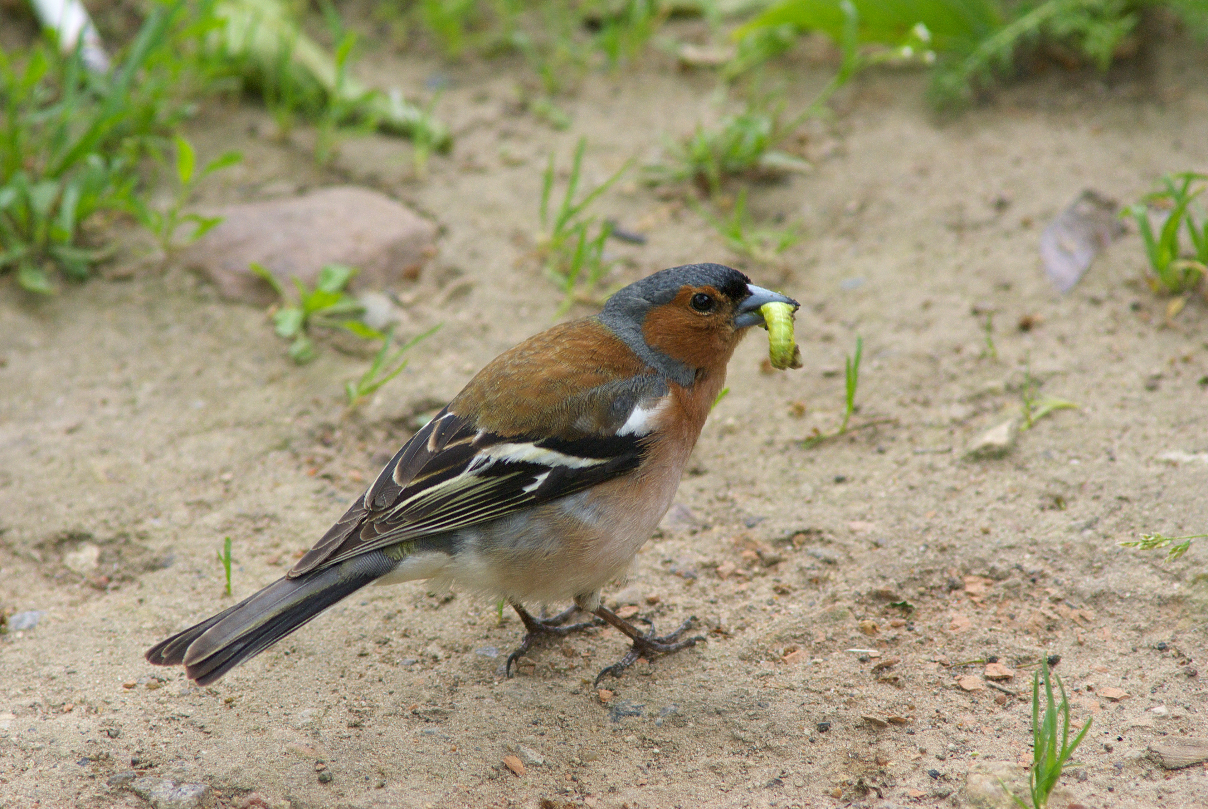 Chaffinch eating caterpillar